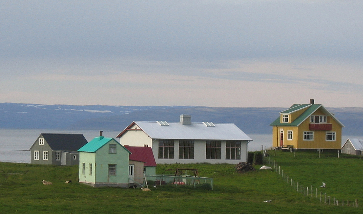 Flatey á Breiðafirði, Iceland photo by Salvor Gissurardottir in July 2006 Houses in the old village